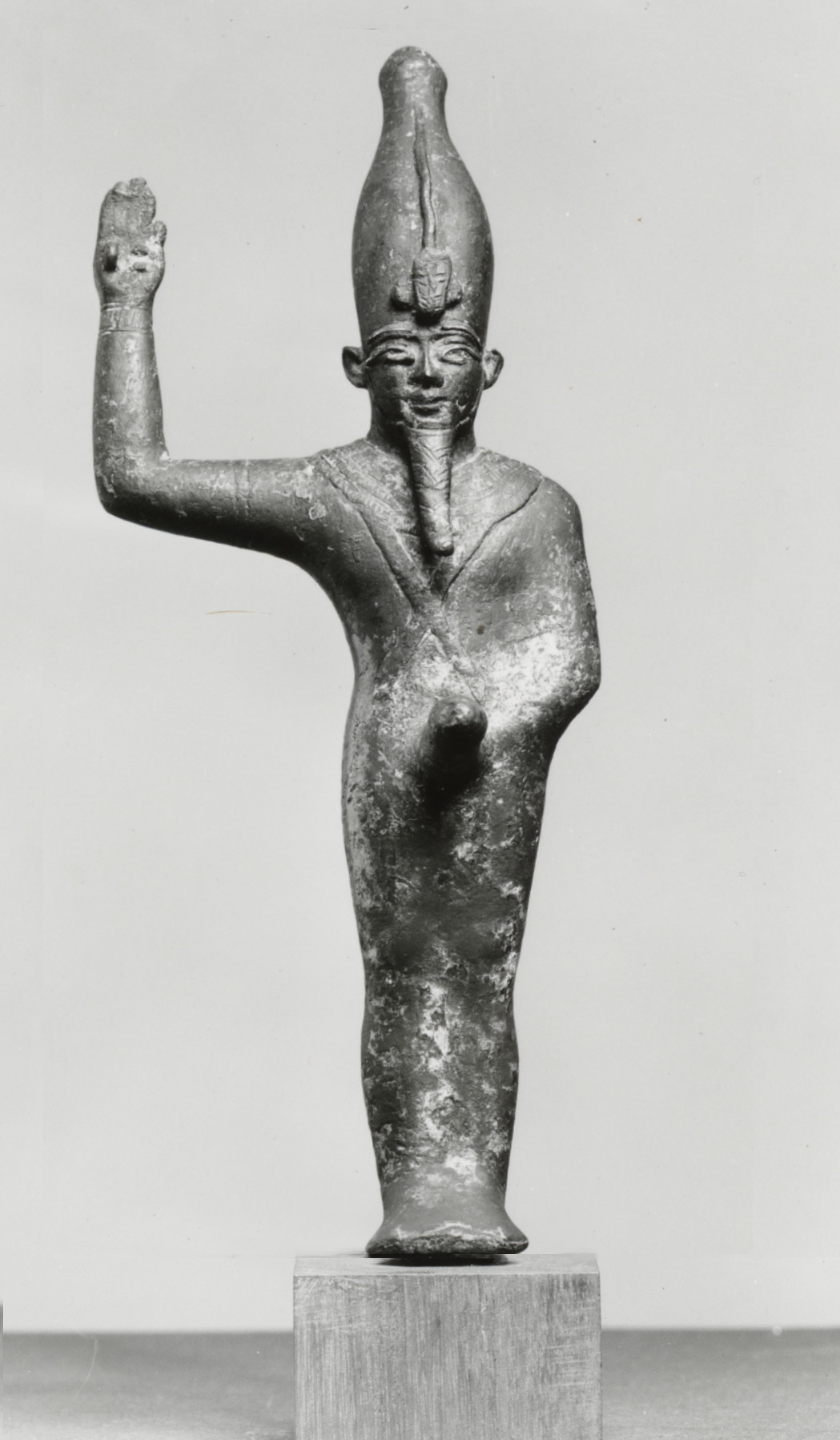 The representation of the mummiform Amun-Min-Kamutef with an erect phallus alludes to his role as a fertility god. His right arm is raised in a gesture of rejoicing. The name Kamutef ("bull of his mother") conveys that the god is both father and son and, therefore, self-created. Instead of the god's usual tall, feathered crown, this statuette (a rare example) depicts the god wearing the crown of Upper (south) Egypt, emphasizing his southern origins.